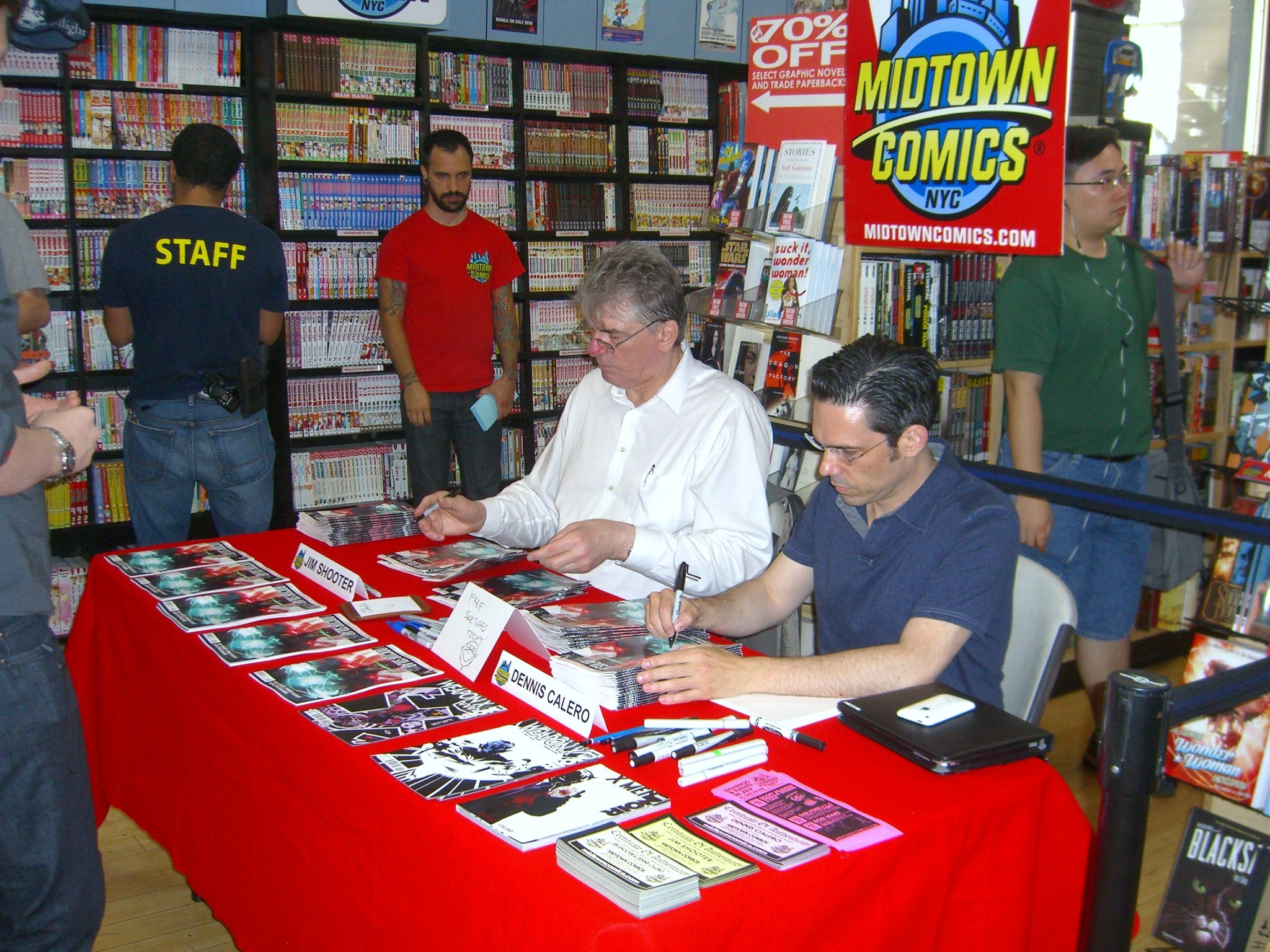 Writer Jim Shooter (left) and artist Dennis Calero (right) at a signing for Dark Horse Comics’ Doctor Solar, Man of the Atom at Midtown Comics Times Square in Manhattan, July 17, 2010. Photo by Luigi Novi. This photo may be used, modified and published for any purpose, only if the photographer is visibly credited in each instance in which it is used. (See licensing information below.) For more information on my photos, you can contact me here.